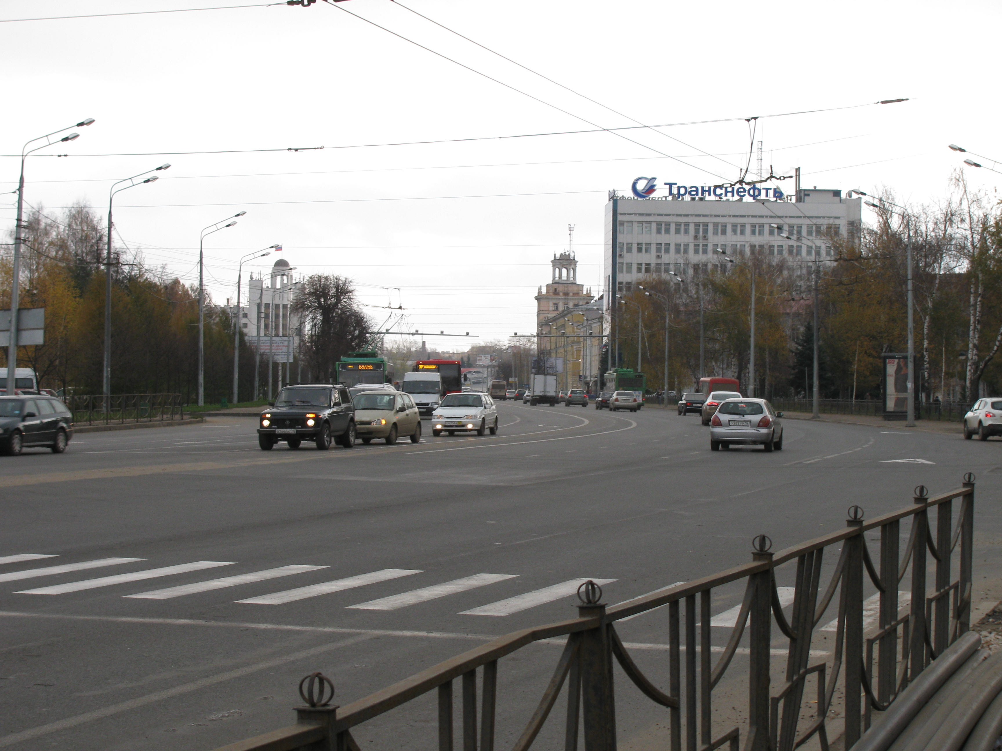 Nikolai Ershov Street in Kazan